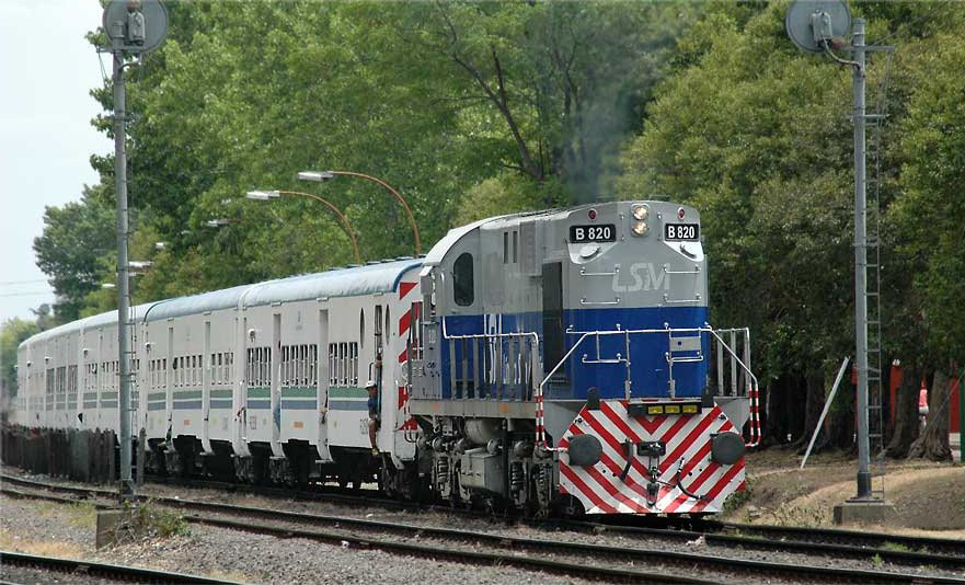 Alco diesel locomotive painted with the UGOFE visual identity.